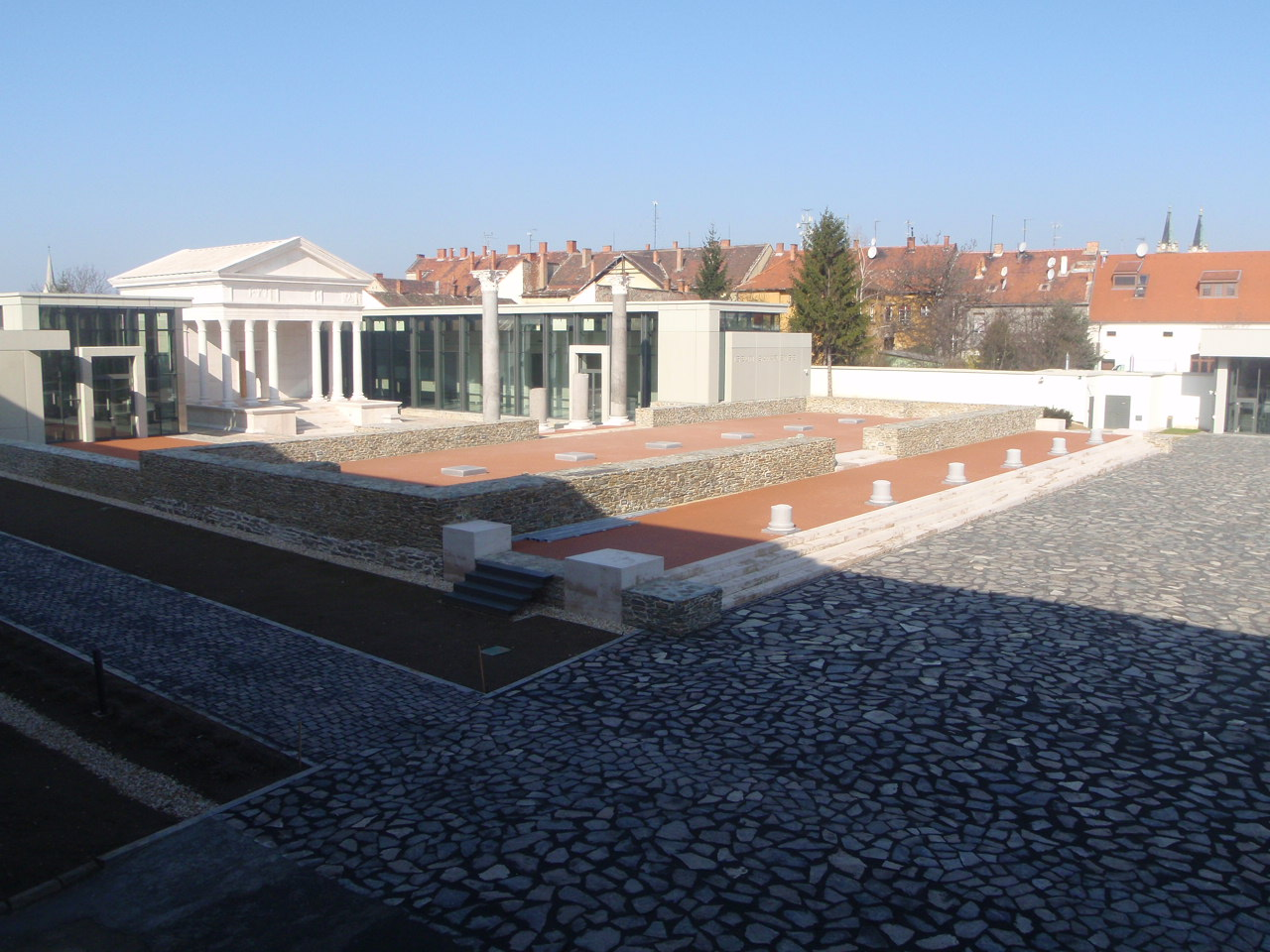 Temple of ISIS (Savaria) Szombathely, Hungary